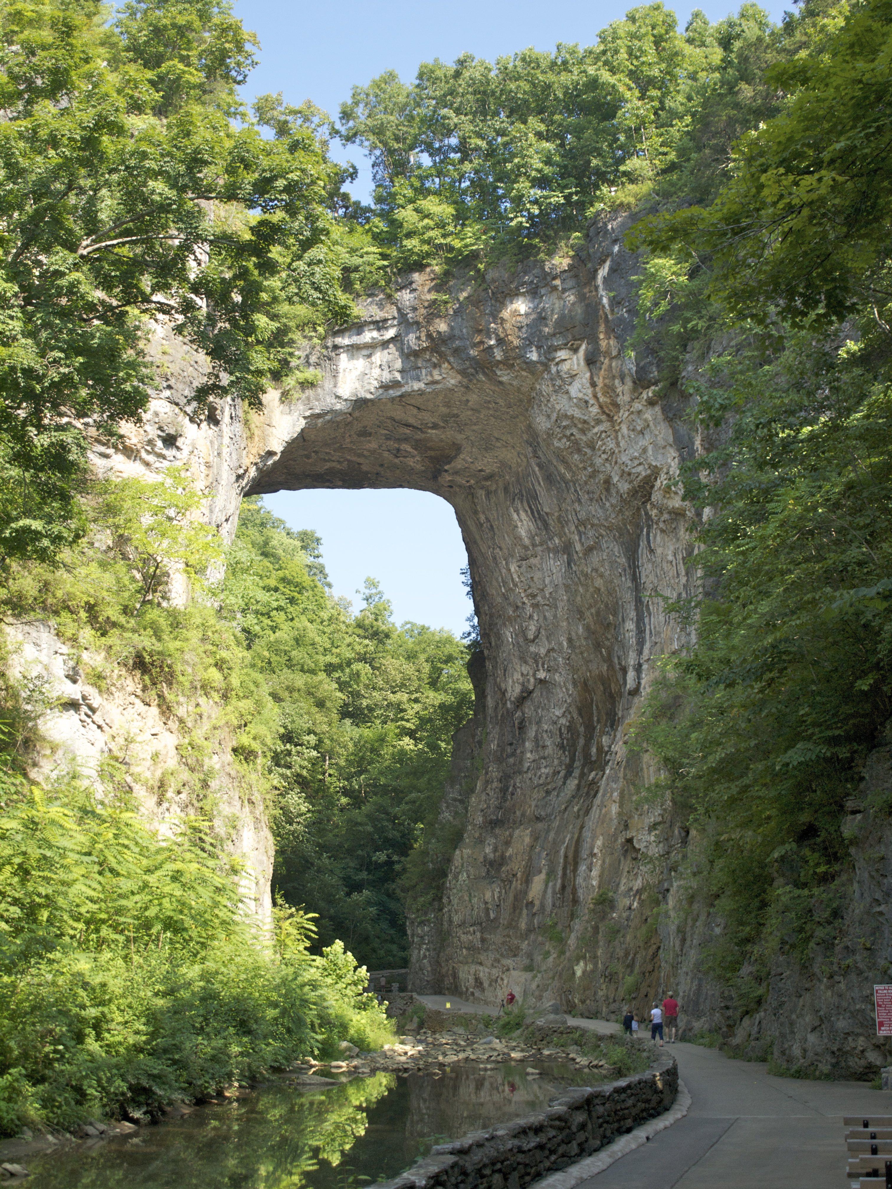 Natural Bridge, Virginia